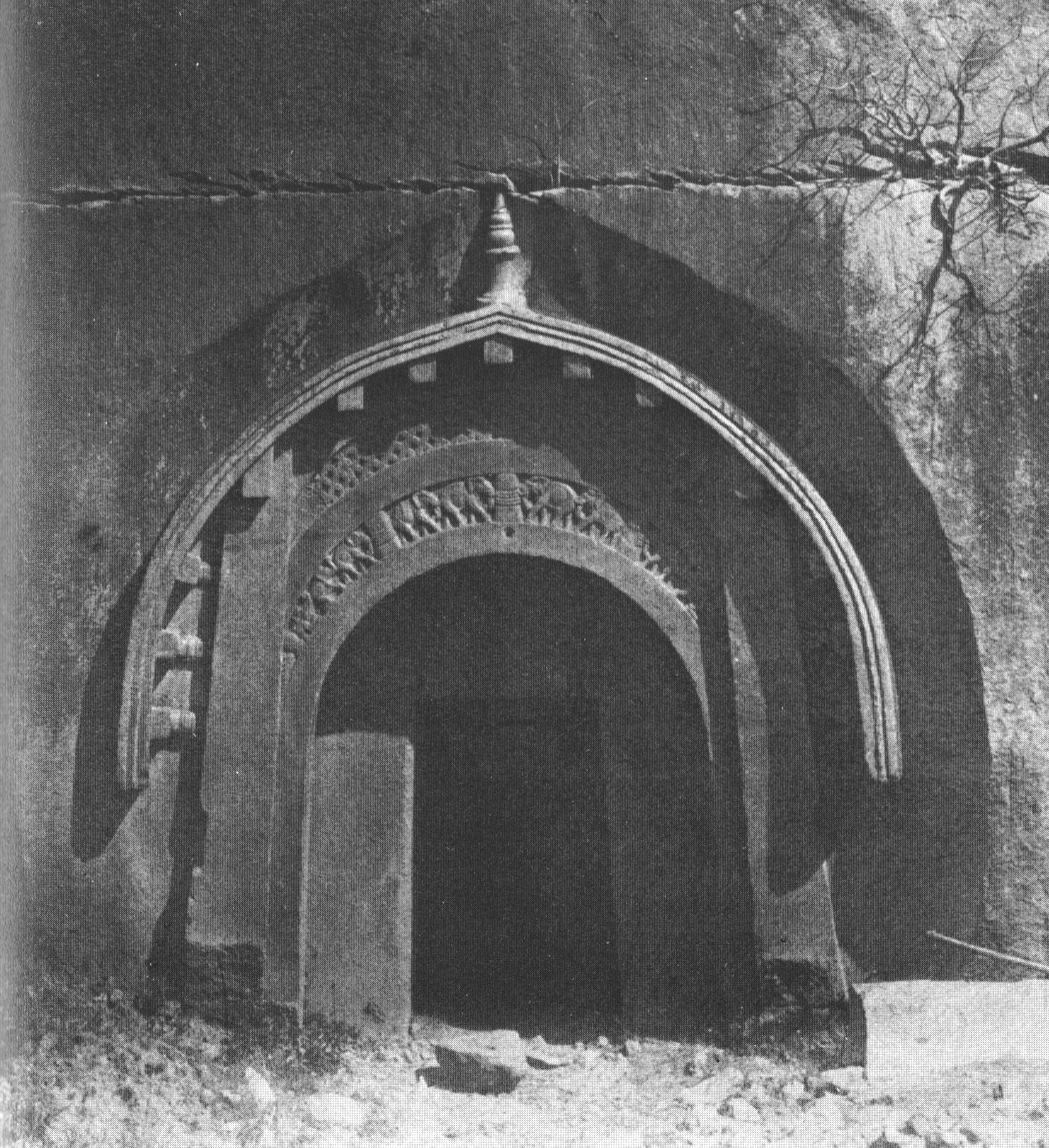 Mauryan building in the Barabar Mounts. Grottoe of Lomas Rishi. IIIrd century BCE